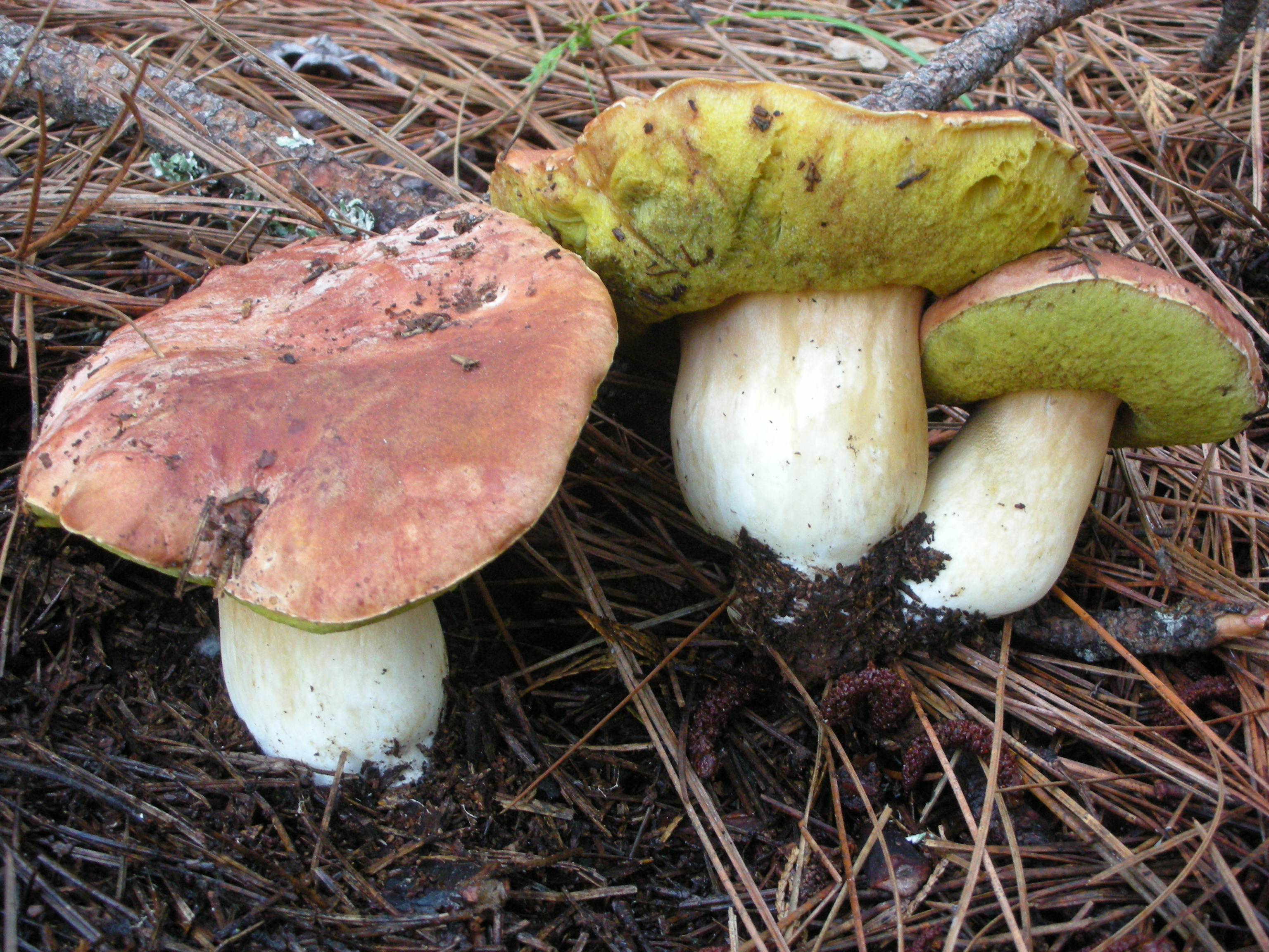 The bolete mushroom Boletus rex-veris D.Arora & Simonini. Specimens photographed in Jenkinson Lake, El Dorado Co., California.